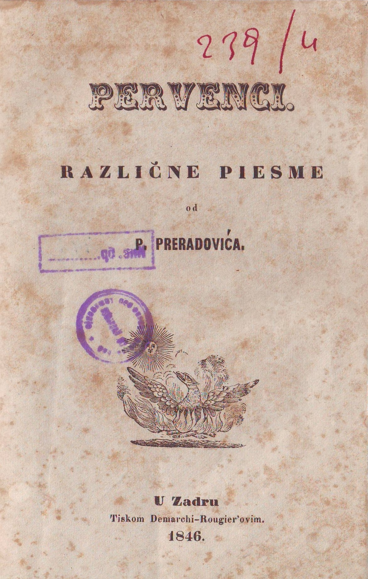 Cover of poetry collection Pervenci (1846) by Petar Preradović. Srpski (latinica): Naslovna strana zbirke pesama Pervenci (1846) Petra Preradovića.